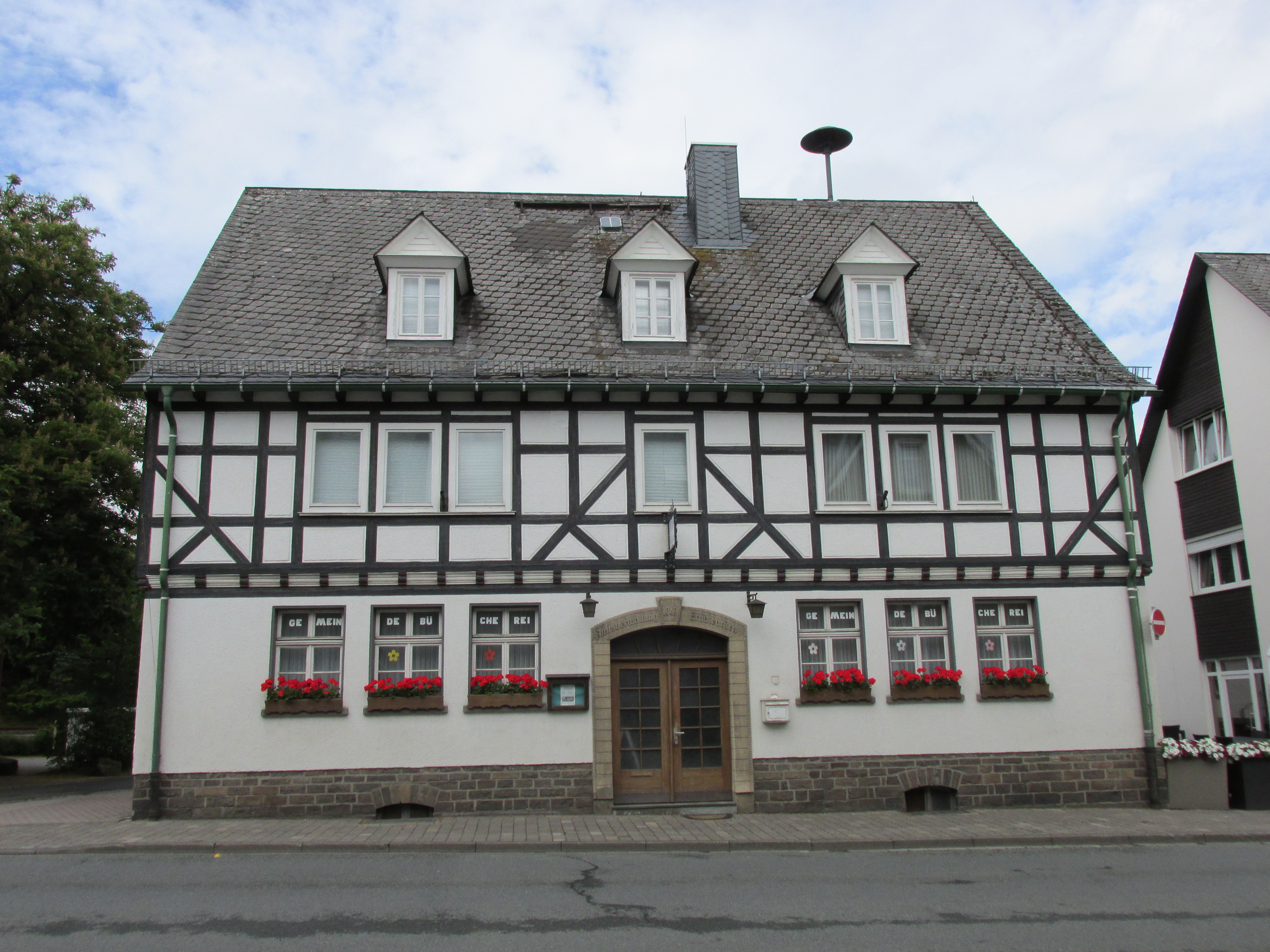 Former townhall, nowadays library, Erndtebrück, Germany